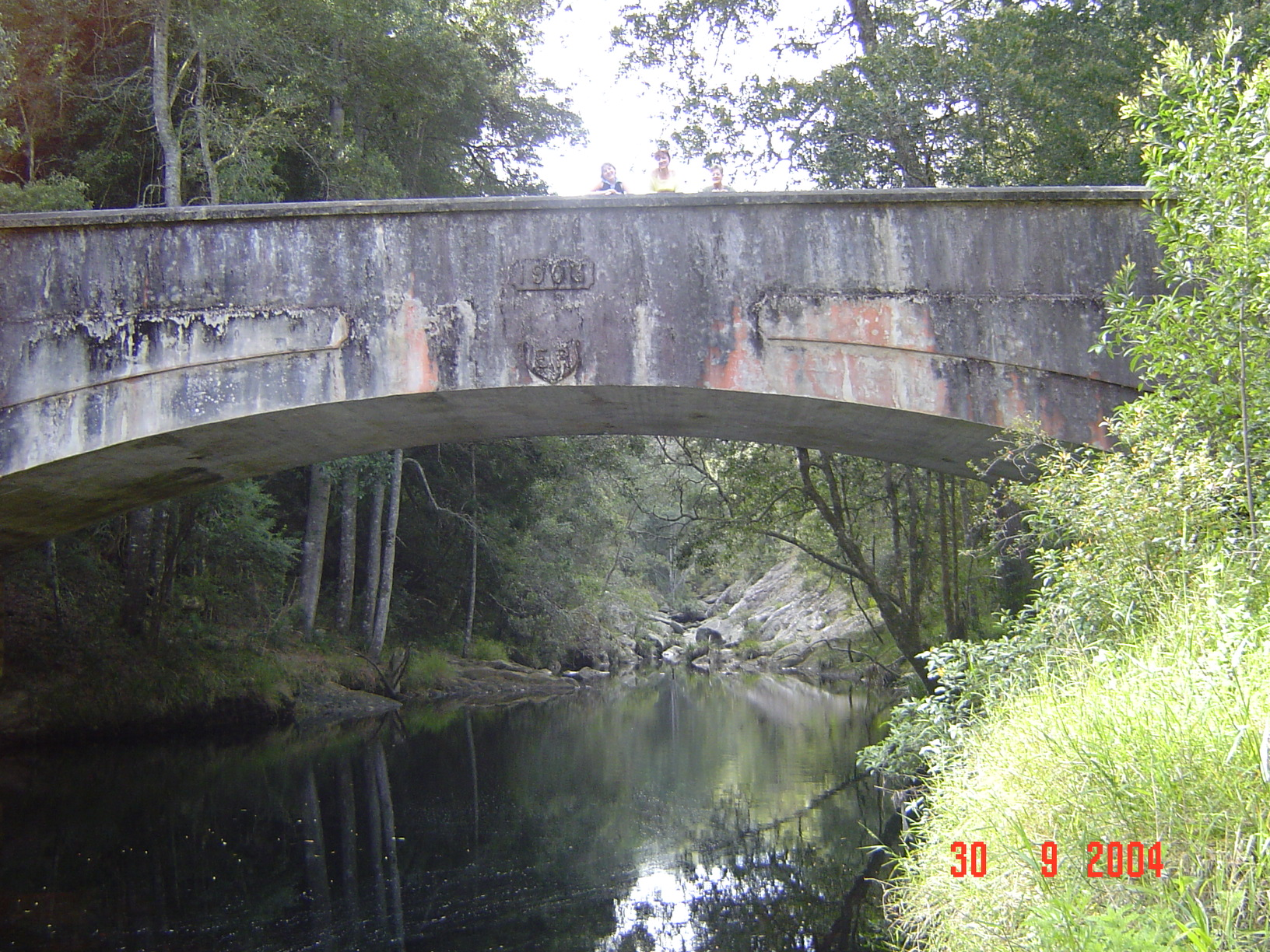 The brigde across the Silver River on the Seven Passes road